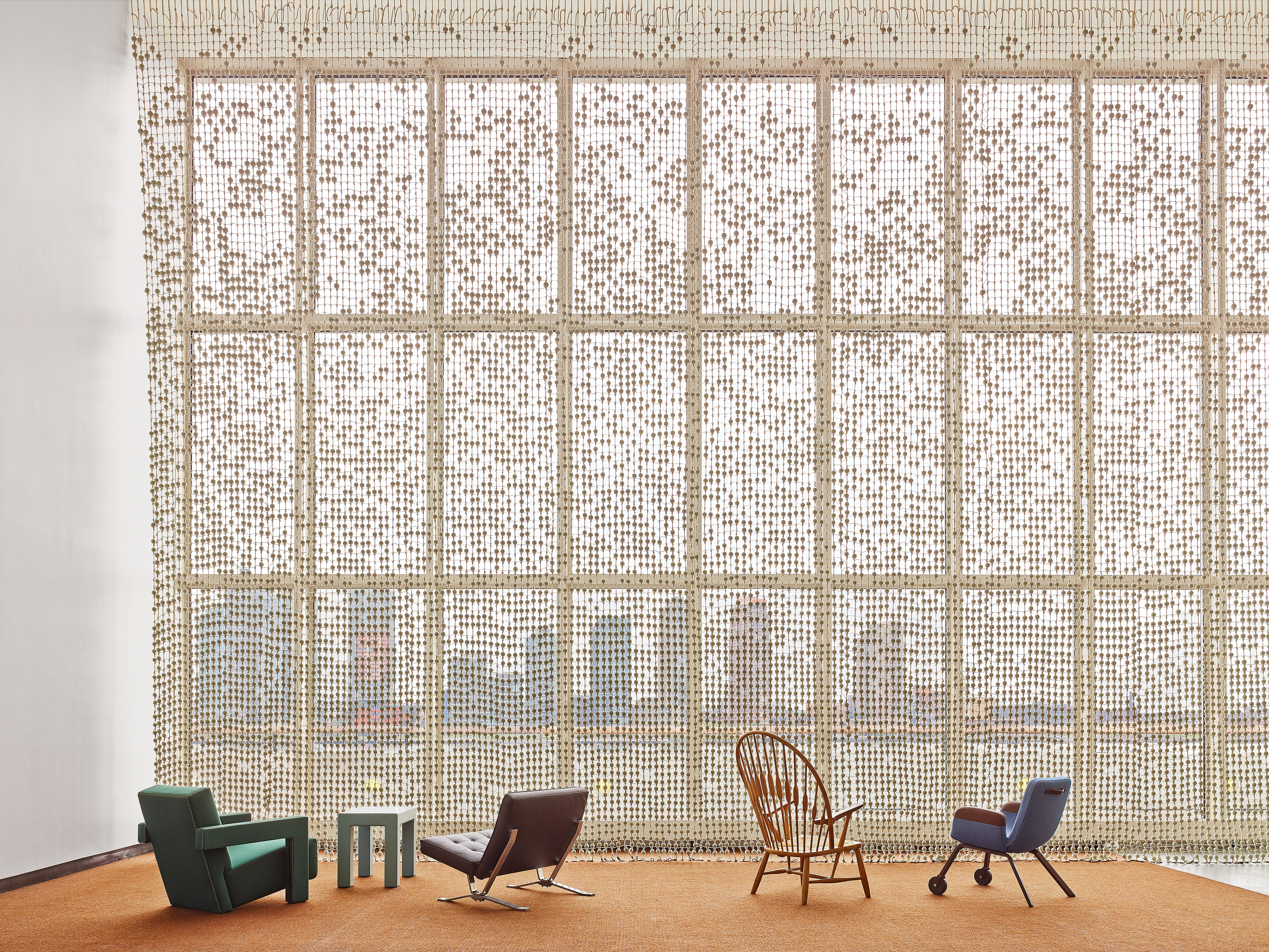 Re-Design North Delegates' Lounge UN Headquarters New York Photo: Ministry of Foreign Affairs The Netherlands/ Frank Oudeman. More than sixty years after the opening of the UN North Delegates’ Lounge, Hella Jongerius has redesigned the lounge together with Rem Koolhaas, Irma Boom, Gabriel Lester and Louise Schouwenberg. In this picture: Knots & Beads Curtain, 2013, Hella Jongerius. Left to right: Utrecht Lounge Chair, 1935, Gerrit Rietveld; Probably Knoll Chair, by anonymous, 1950s, re-use; Peacock Chair, 1947, Hans Wegner, re-use; UN Lounge Chair, 2013, Hella Jongerius (this chair was later redesigned for Vitra as East River Chair, 2014 [1]).